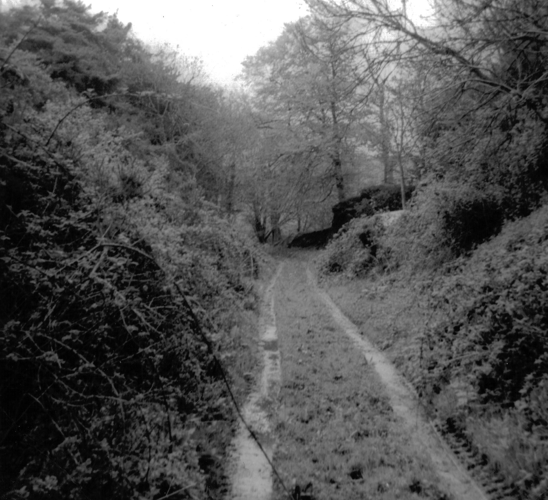 The old railway cutting near Kenwith Castle, Devon, England